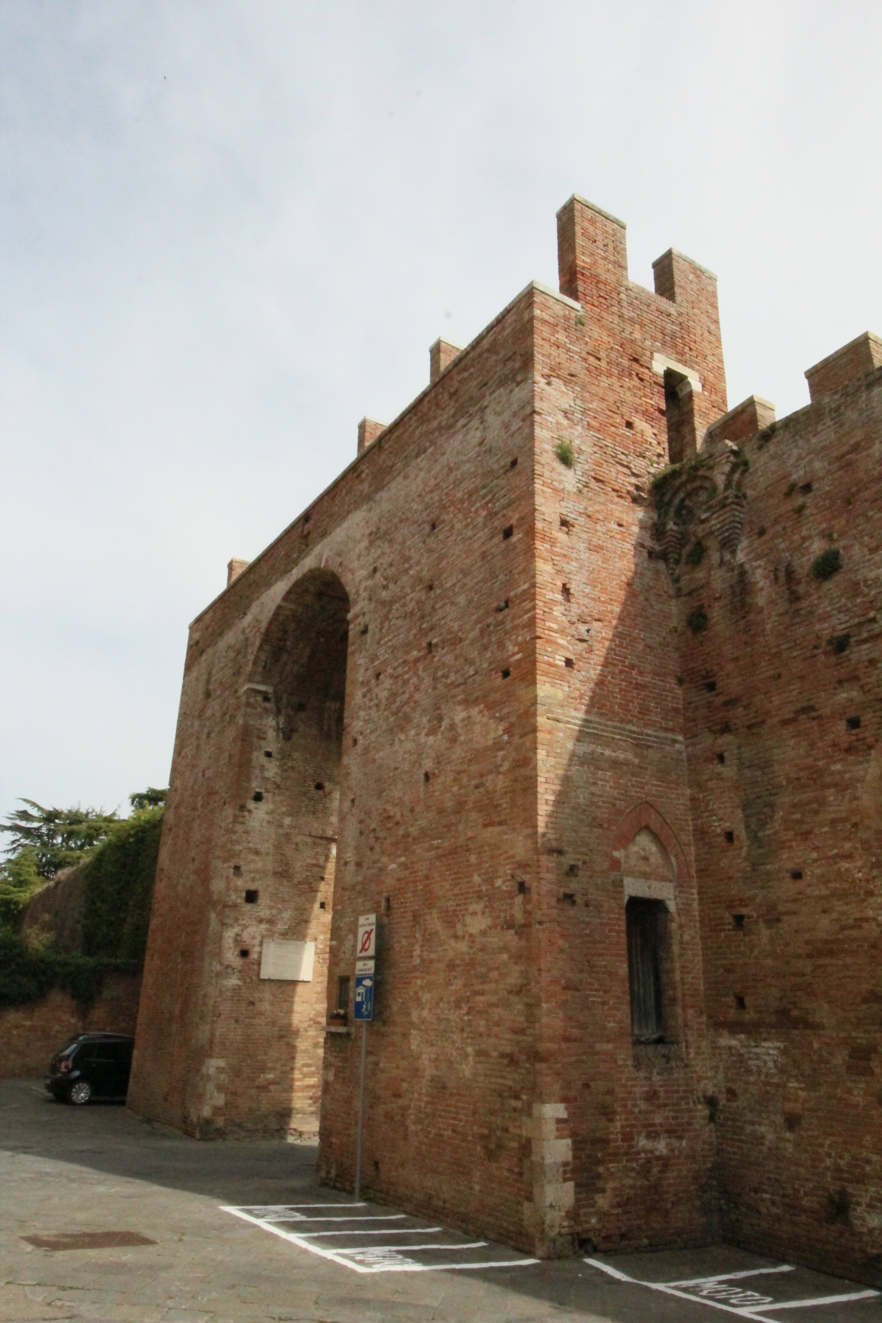 City Gate Porta Tufi, seen from the Inside, City Walls of Siena, Tuscany, Italy